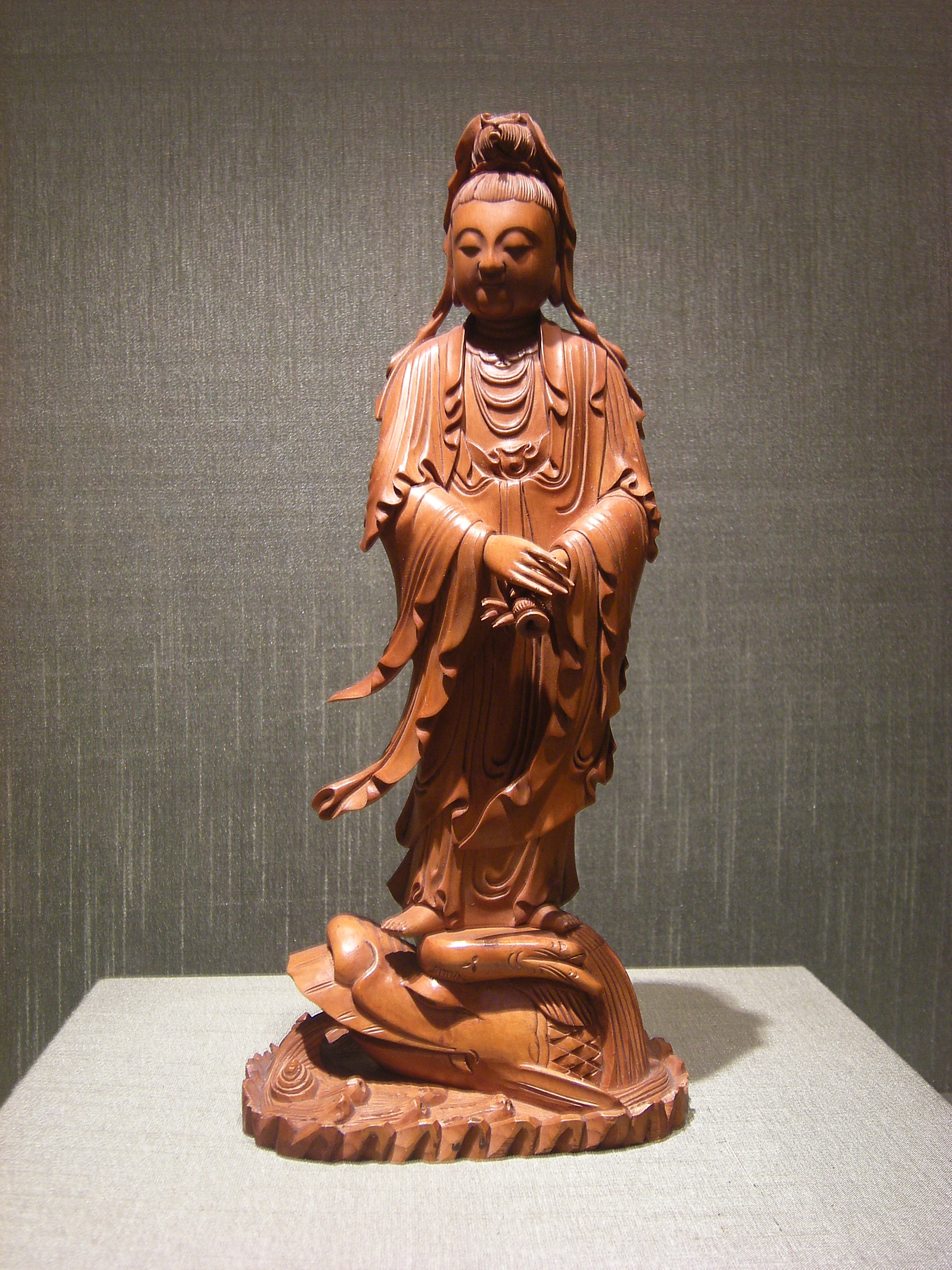 Boxwood_statue_of_Avalokiteshvara（Guan-Yin） in Suzhou museum。 Period：Republic of China（1912-1949）